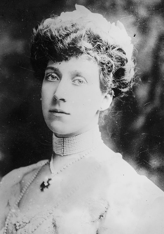 Bain News Service,, publisher. Princess Louise Auguste of Schleswig Holstein [between ca. 1910 and ca. 1915] 1 negative : glass ; 5 x 7 in. or smaller. Notes: Title from unverified data provided by the Bain News Service on the negatives or caption cards. Forms part of: George Grantham Bain Collection (Library of Congress). Format: Glass negatives. Repository: Library of Congress, Prints and Photographs Division, Washington, D.C. 20540 USA, General information about the Bain Collection is available at Persistent URL: Call Number: LC-B2- 2967-12